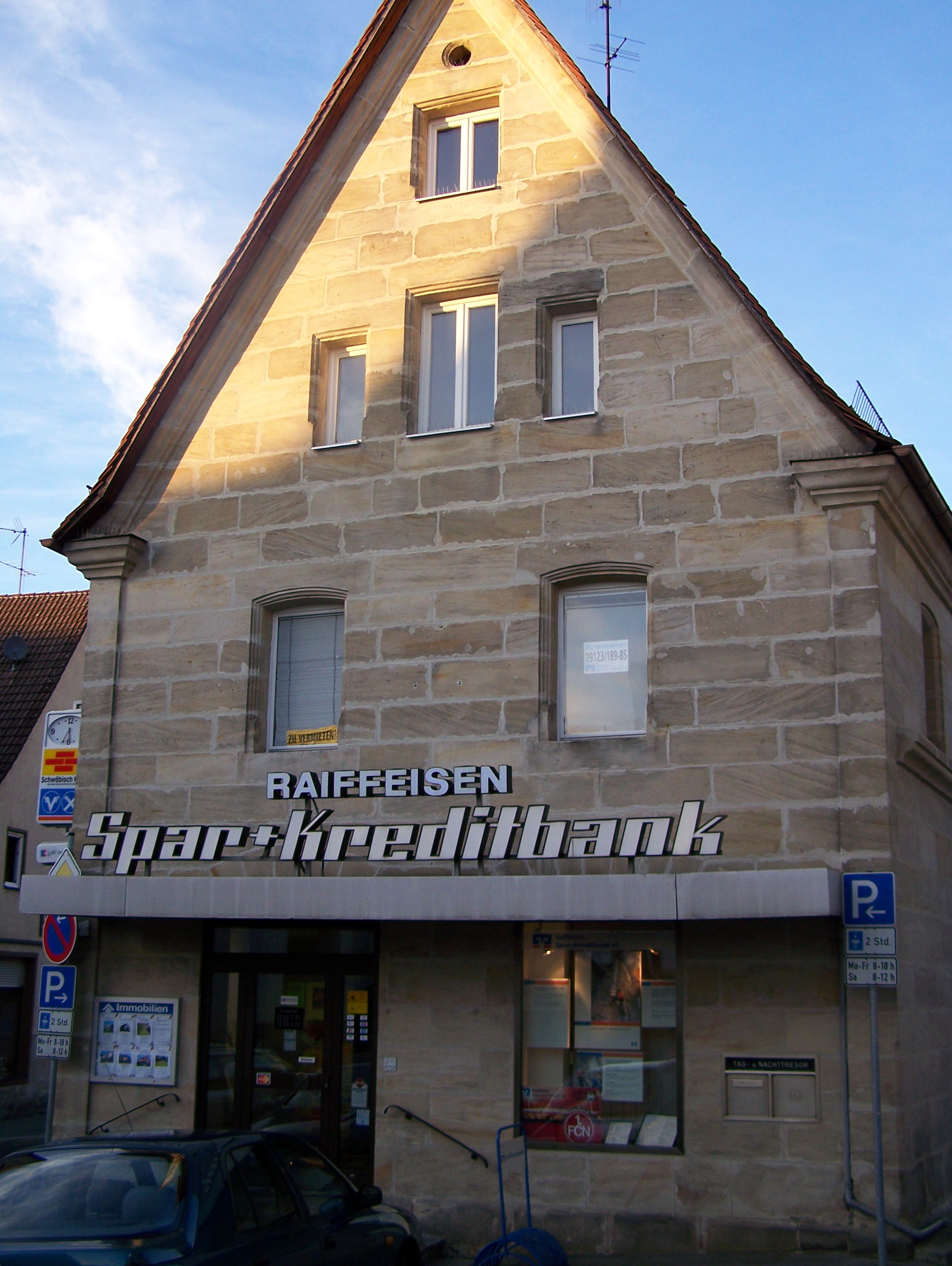 Raiffeisenbank in Schnaittach, Germany.